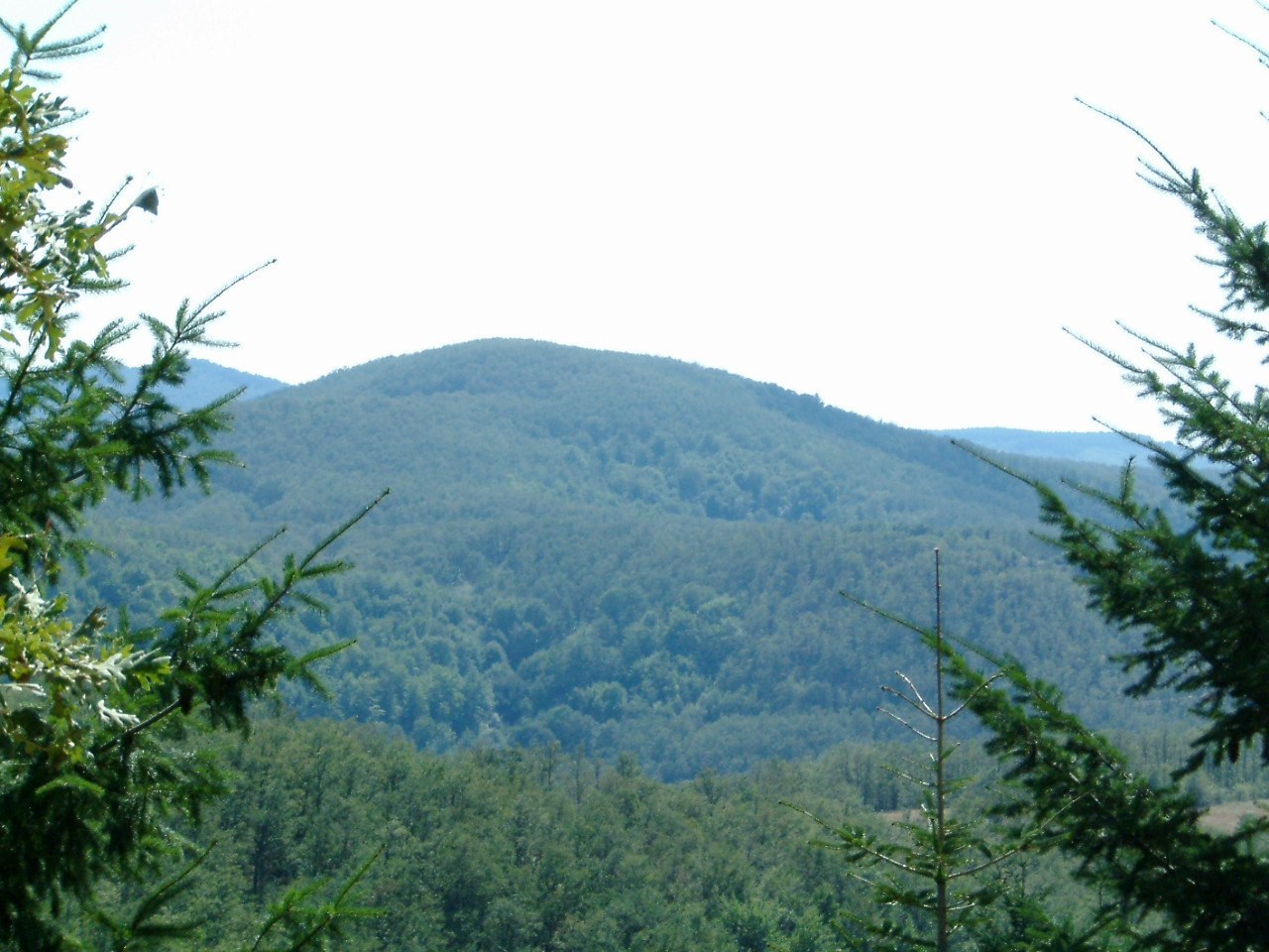 Cholomondas mountain, Chalkidiki, Greece. Dense forest beside the road.